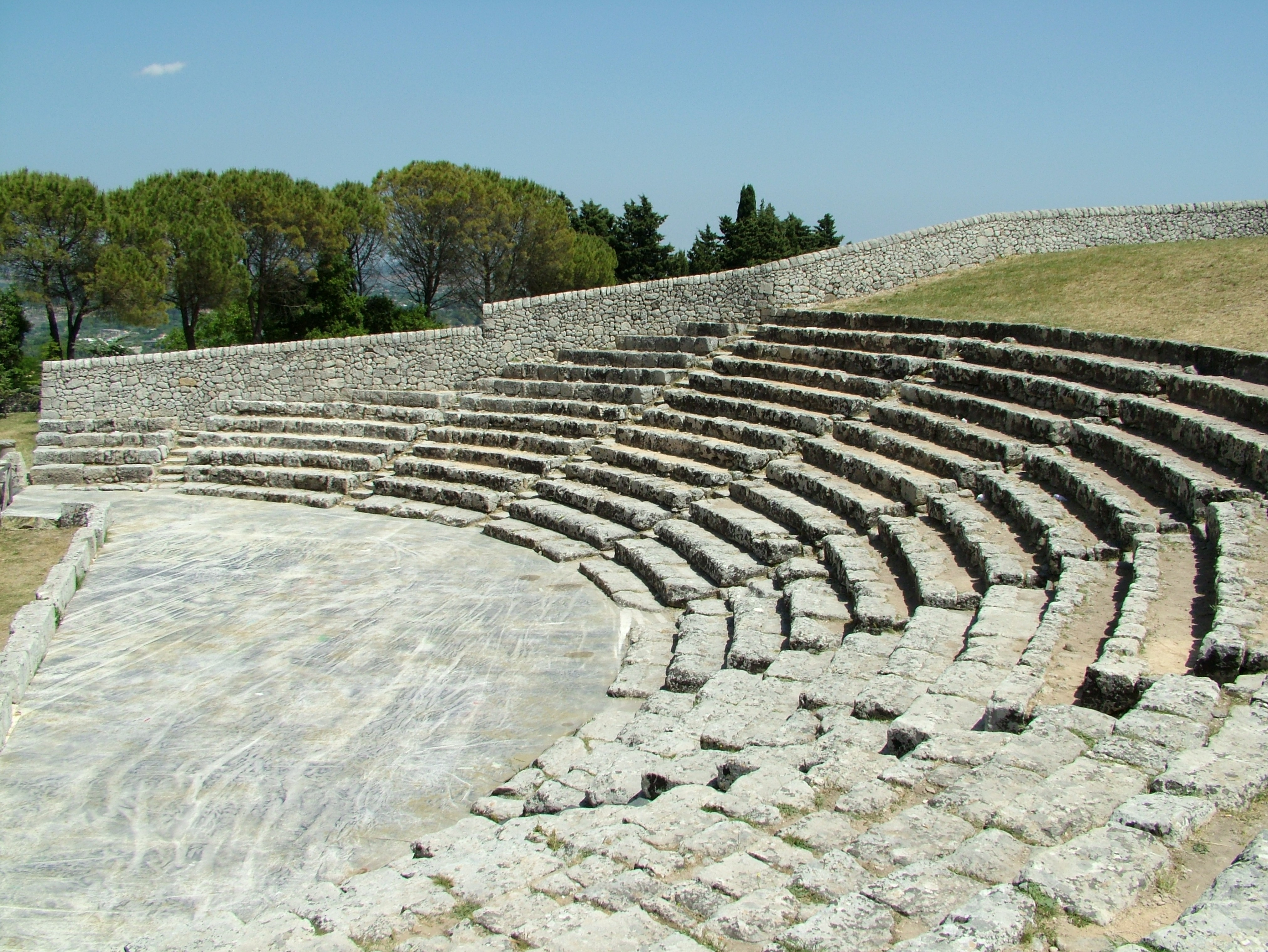 Palazzolo Acreide (former Greek colony of Akrai) - Ancient Greek theater